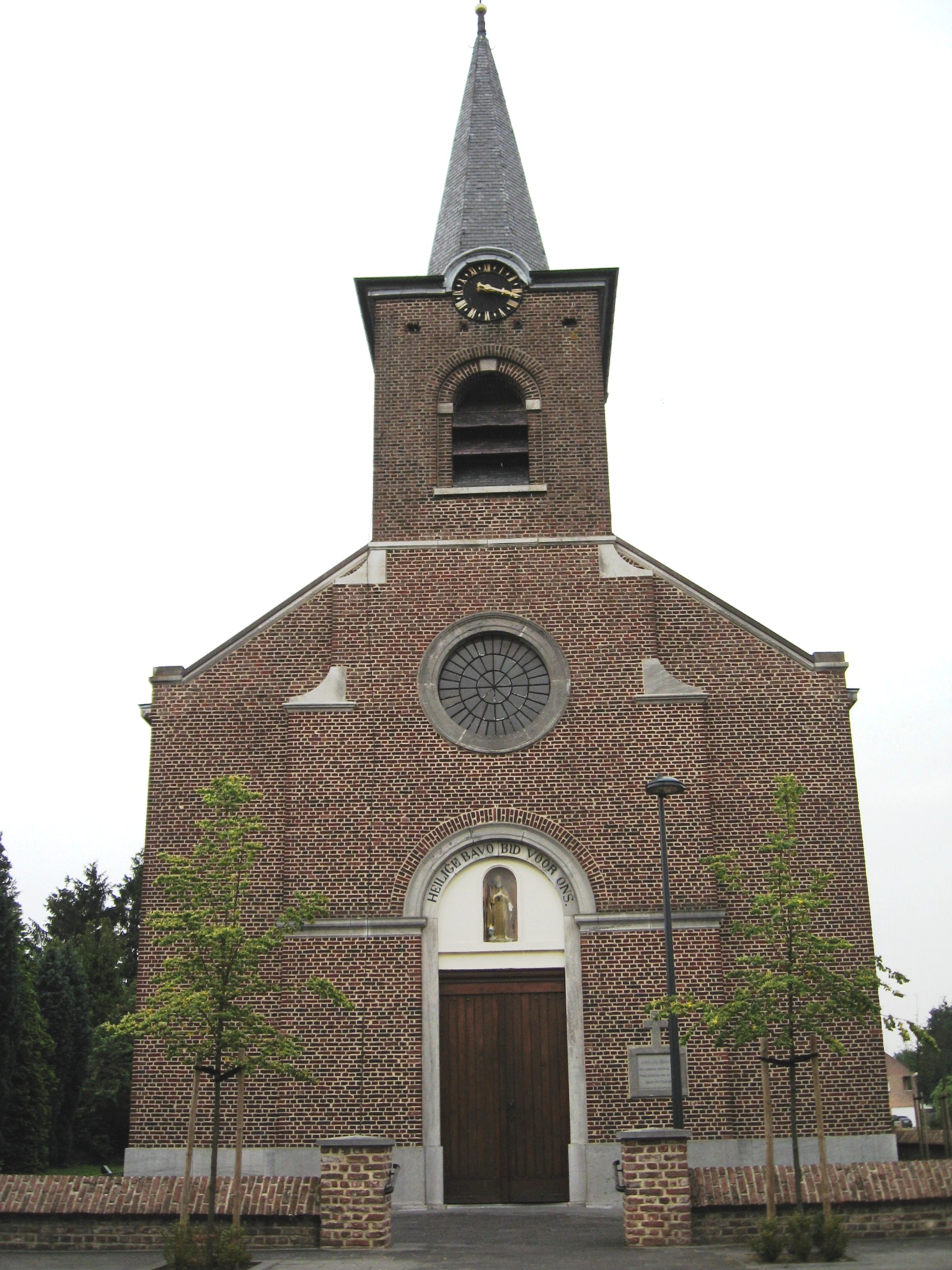 Church of Saint James in Heusden (Eversel), Heusden-Zolder, Limburg, Belgium